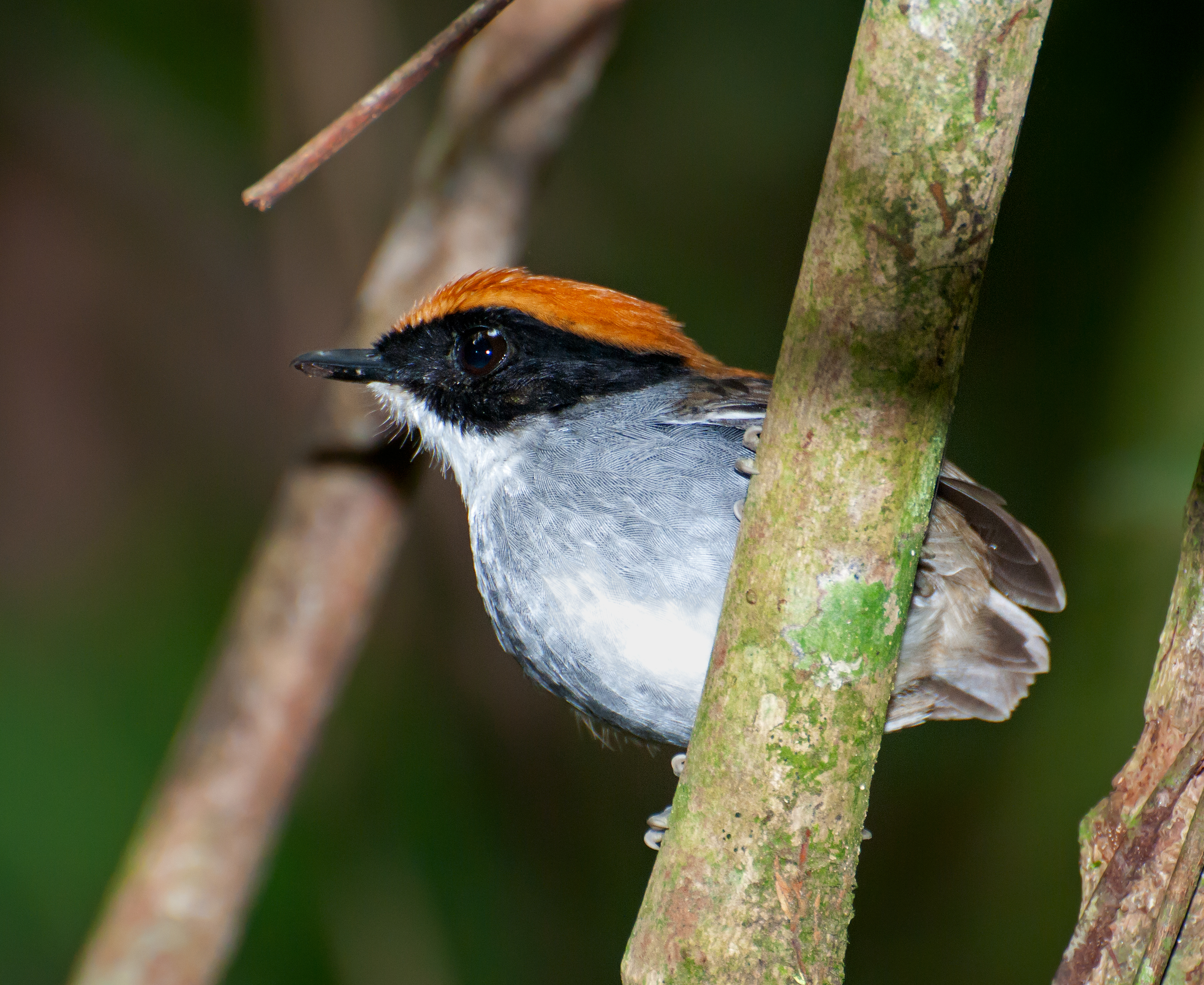 An adult male Black-cheeked Gnateater in Vale do Ribeira, Juquiá, São Paulo, Brazil.